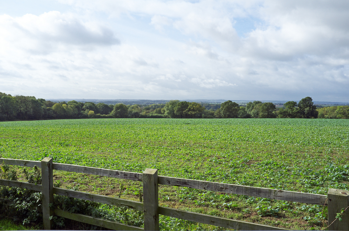 Looking south-west from close to the point where Richard III's standard flies. There are now far more trees in the scene than would have been the case in 1485. From here an approaching army using Fenn Lanes would have been visible. Dadlington windmill would also have been visible: almost certainly the place where Richard III's senior commander the Duke of Norfolk, was slain (according to the Stanley ballad, "Lady Bessy"). Dadlington windmill stood somewhere between Apple Orchard Farm and neighbouring North Farm. One of the fields of North Farm, just north of Apple Orchard Farm, was still called Mill Field on a mid C19th tithe map.